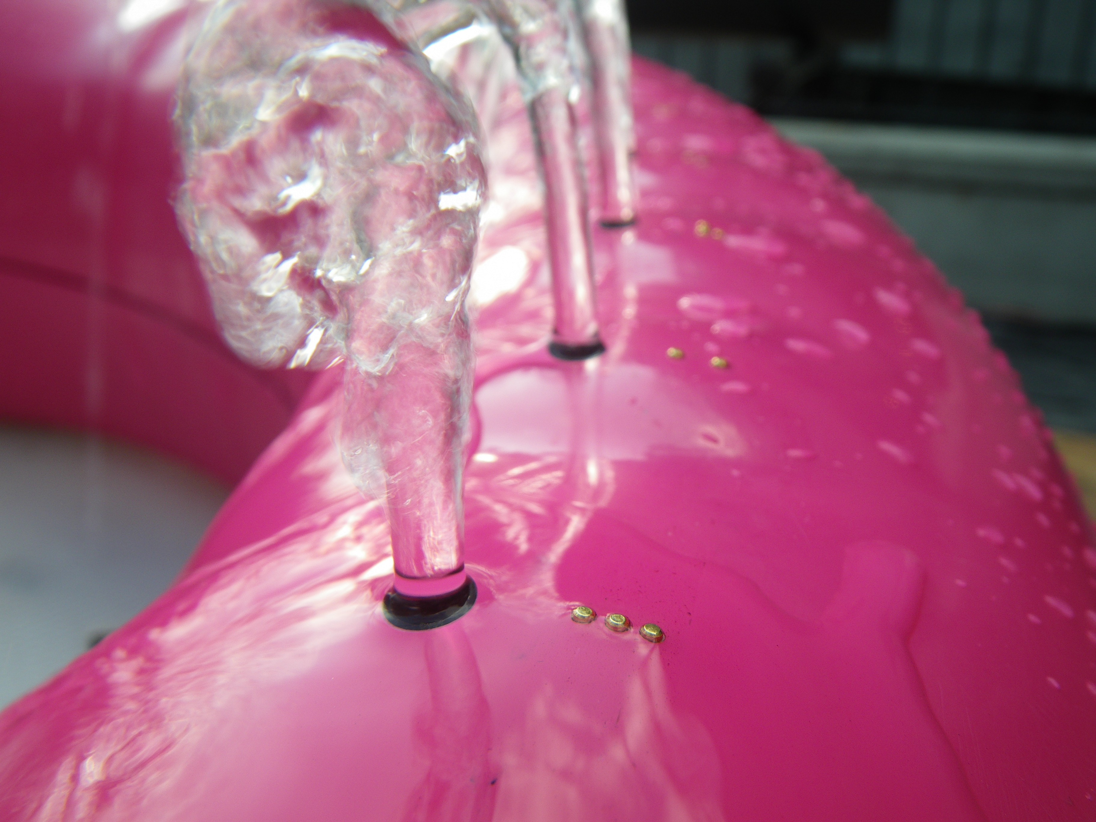 Picture of Braille markings above hydraulophone (underwater pipe organflute) water jet